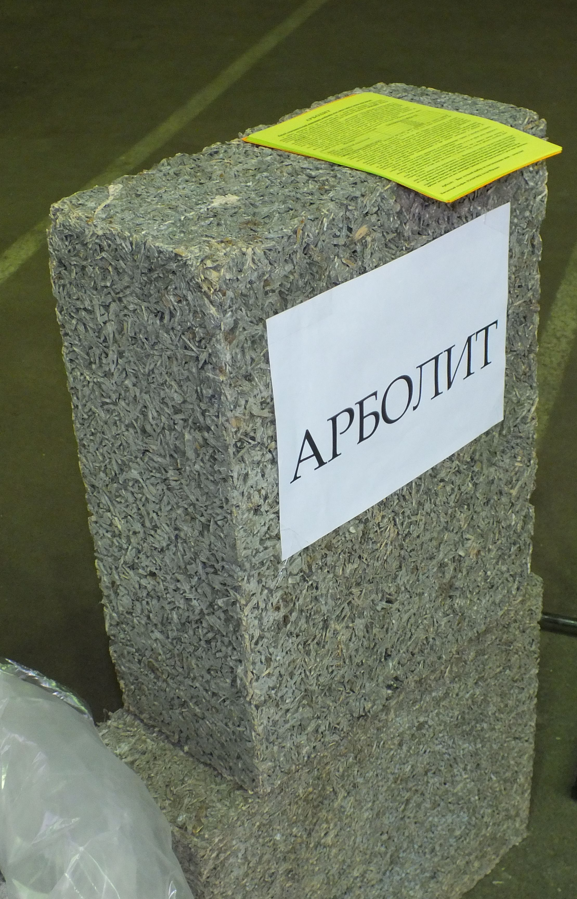 Papercrete